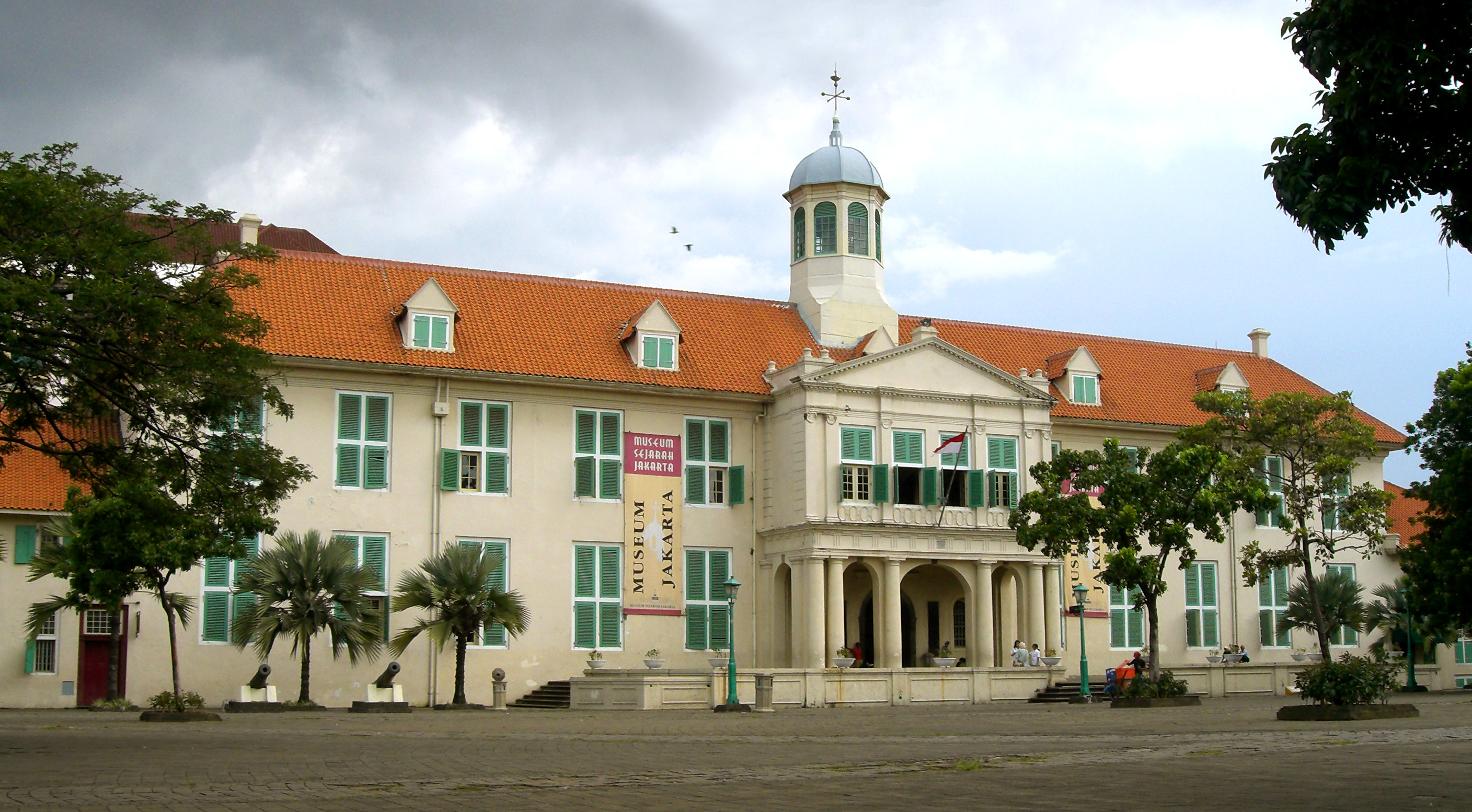 The former Stadhuis of Batavia, the seat of the city government during the VOC and the Dutch East Indies era. The building now serves as Jakarta Historical Museum or also known as Museum Fatahillah. The museum houses several important artifacts dated from ancient Hindu Tarumanagara inscriptions to colonial furniture. The building stood at Jakarta Old Town area, Jakarta, Indonesia.